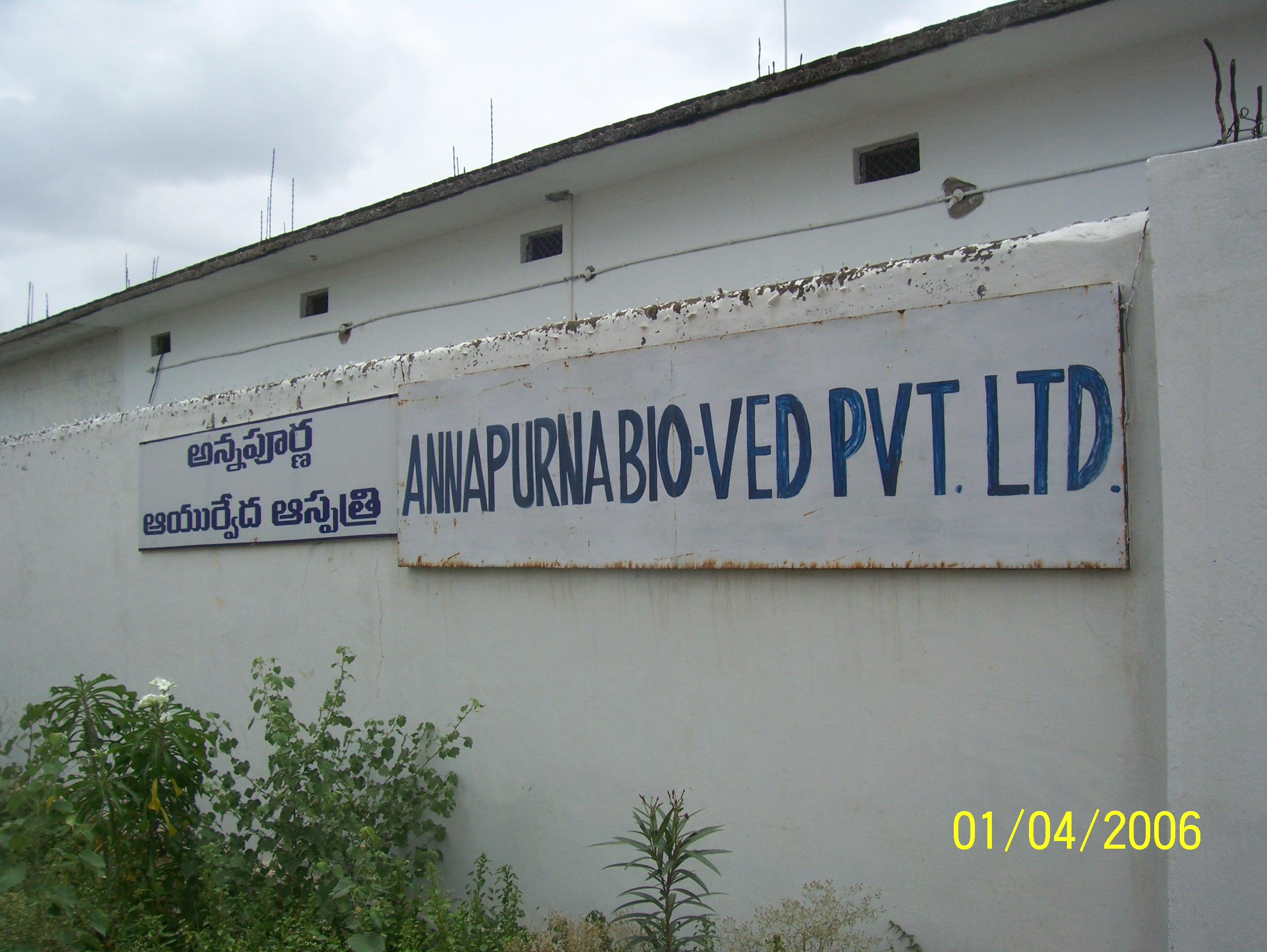 aurvedic hospital injapur